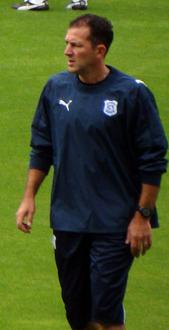 08/08/10 Cardiff V Sheffield United, Football League Championship, Cardiff City Stadium, Cardiff, Wales